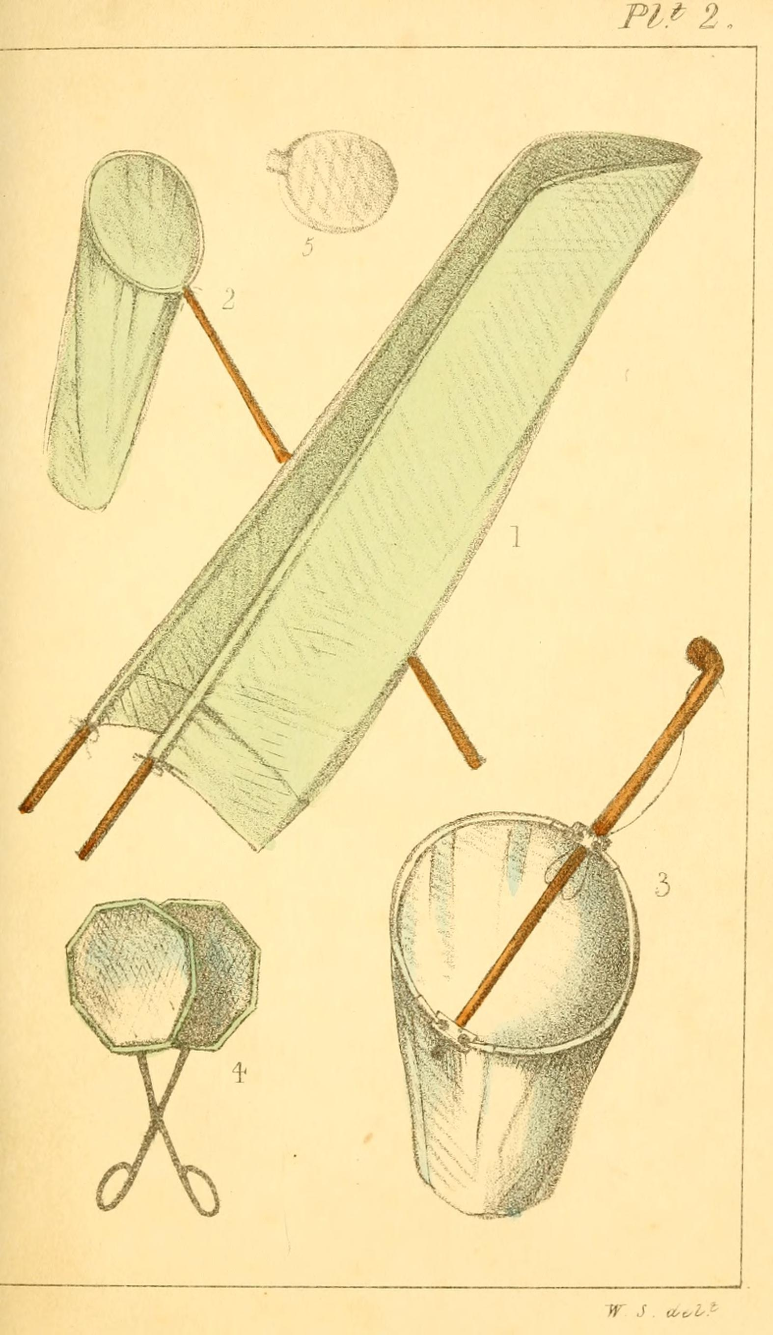 Instructions for collecting, rearing, and preserving British & foreign insects : also for collecting and preserving crustacea and shells by Abel Ingpen. London W. Smith, 1839. 2nd ed., with considerable corrections and additions. Plate I Fig. 1 A clap net Fig. 2 A water net Fig. 3 A sweeping net Fig. 4 Forceps Fig. 5 A ring net